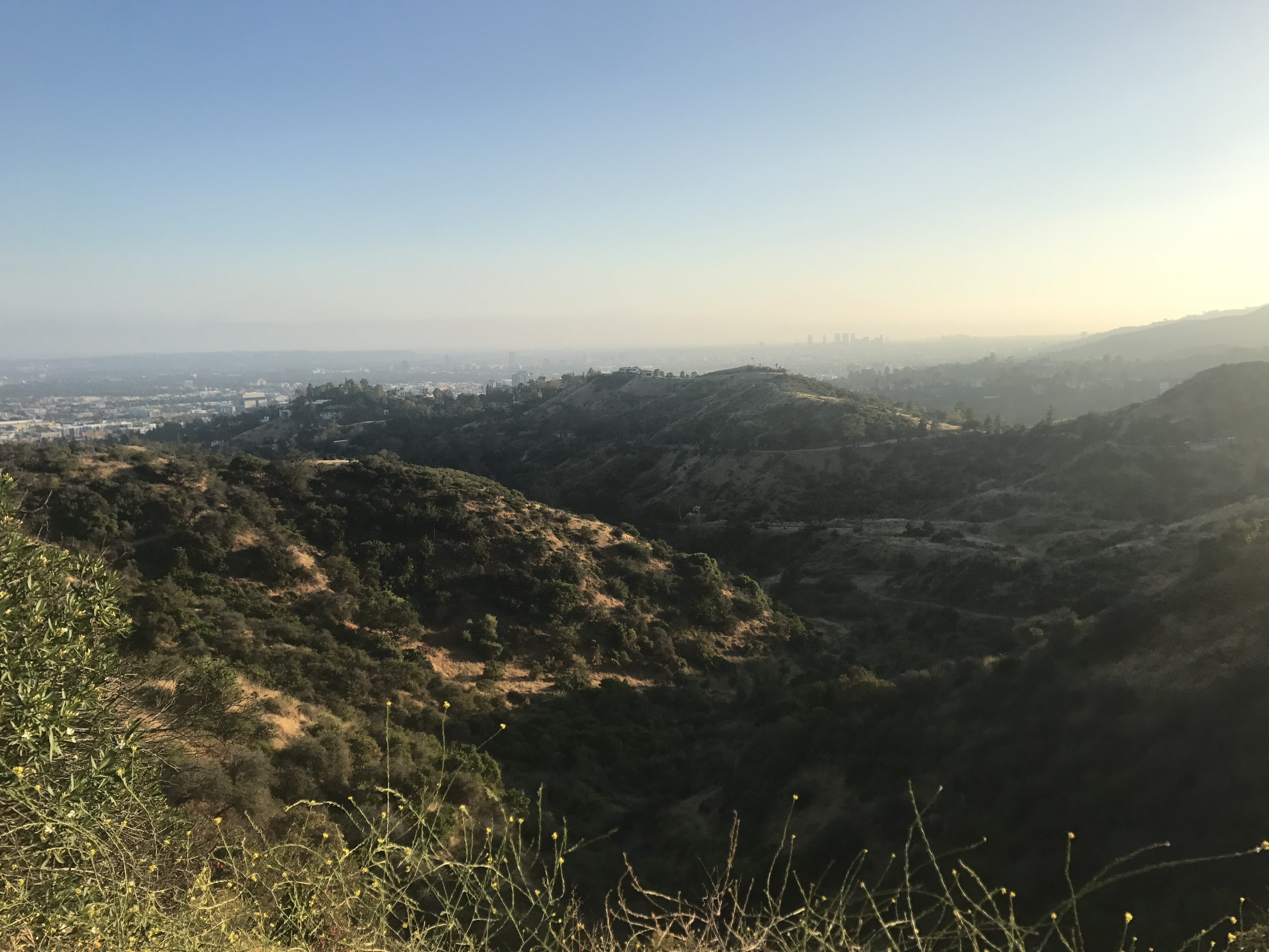 Hiking Views at Griffith Park